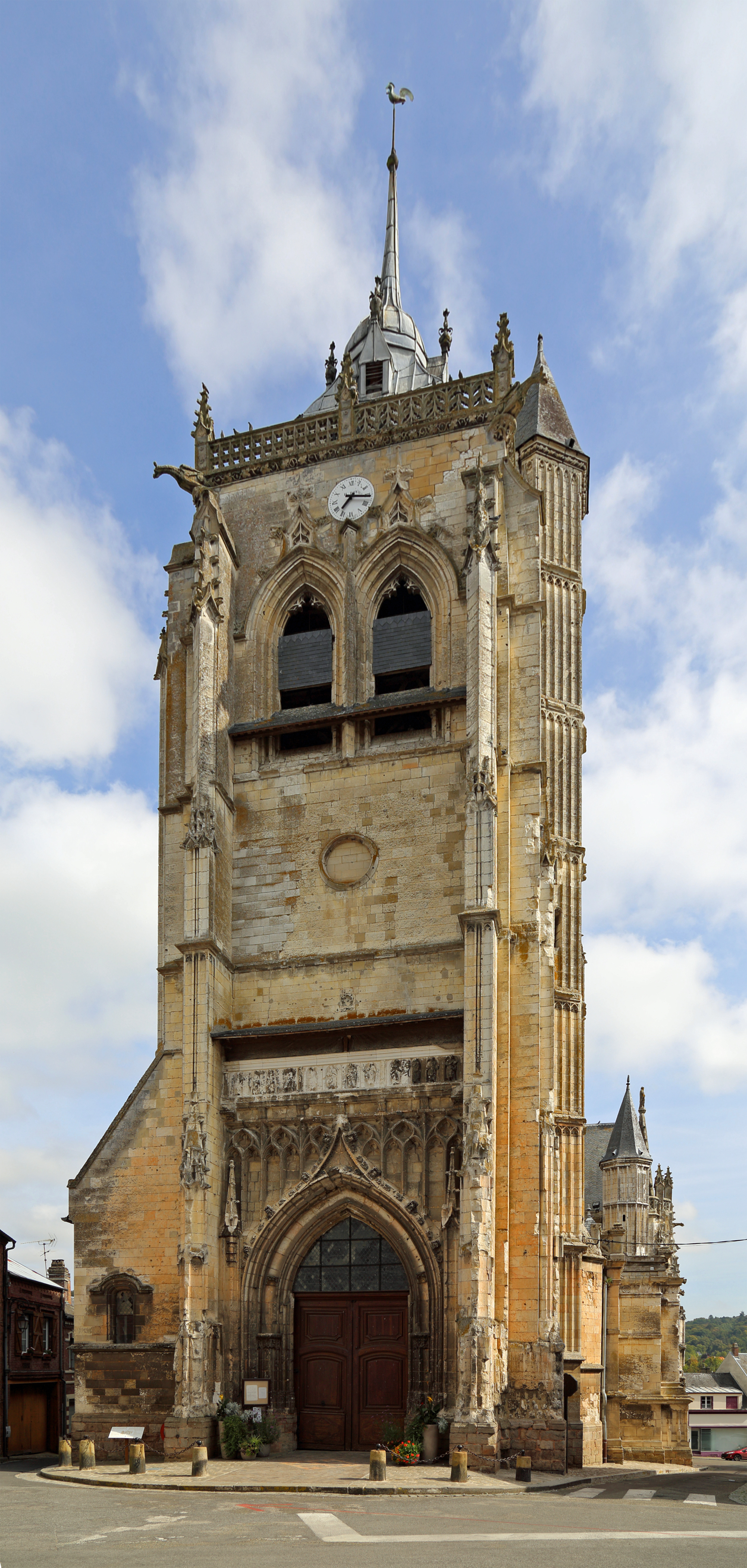 Aumale (Seine-Maritime department, France): bell tower of Saint-Peter and Saint-Paul church